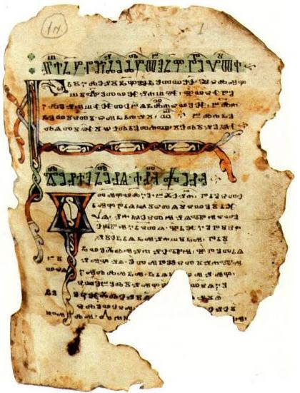 Euchologium Sinaiticum, on of the canon monuments of Old Church Slavonic.